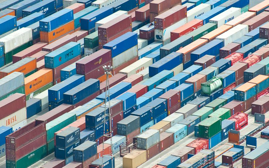 Containers in Barcelona's harbor